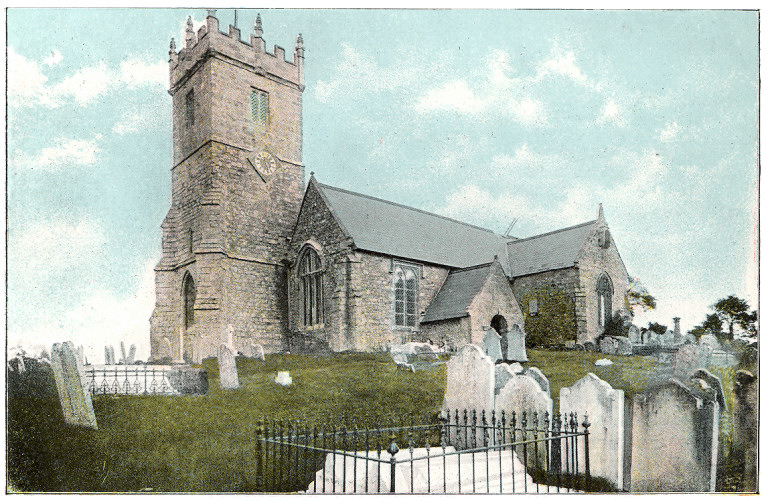 GODSHILL CHURCH.—Built in a striking and conspicuous situation, Godshill Church is visible from many distant points of the surrounding country—a good example of Early Perpendicular architecture, a cruciform structure having two equal aisles of its whole length, with a fine pinnacled tower and sancte-bell turret in the south transept gable. The tower has been recently rebuilt, having been shattered in a thunderstorm in January, 1904, when the clock face was torn out and thrown out into the churchyard. It contains monuments to the Worsley family and the tomb of Sir John Leigh; also a fine painting, of the school of Rubens, of Daniel in the Lions' Den. There are tea-gardens in the village for the accommodation of the numerous visitors who throng there from Shanklin, Sandown, and other places in the vicinity. There is also the old village inn, the Griffon.